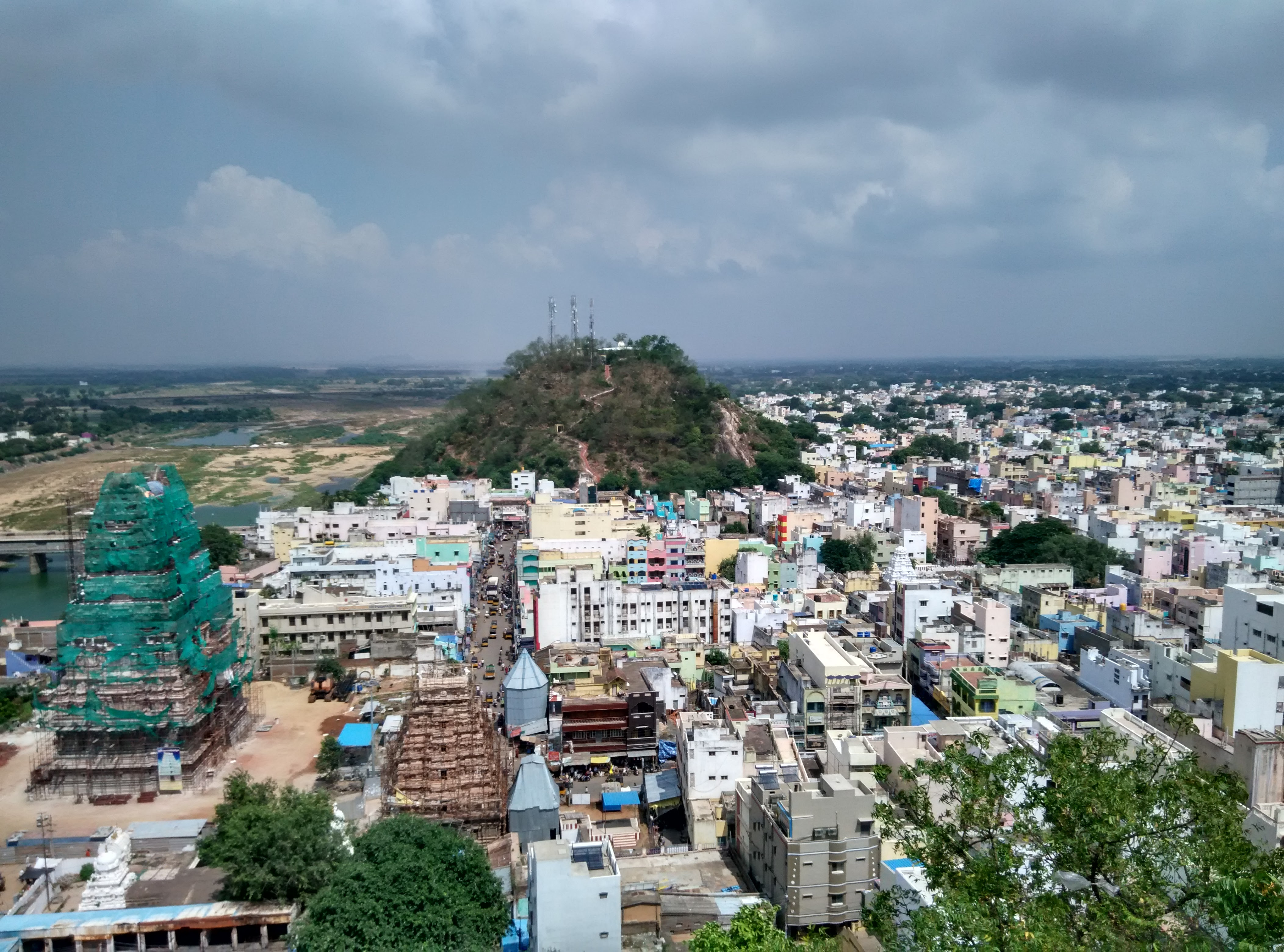 A View of Srikalahasti Town from Kannappa Hill